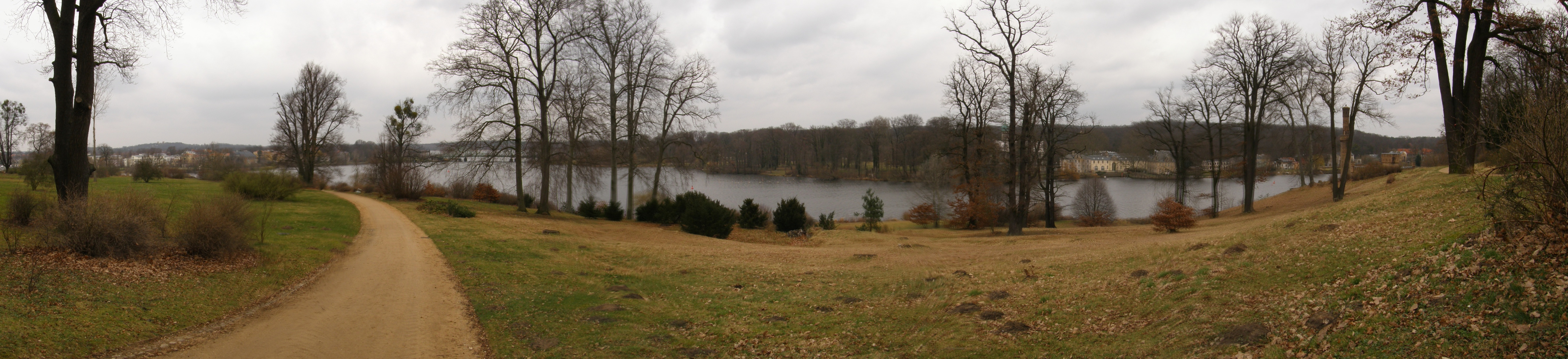 View from castle Babelsberg in Potsdam, Germany to river Havel.